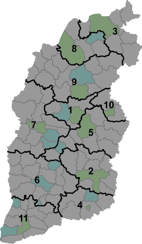 Map of prefectures of Shanxi Province